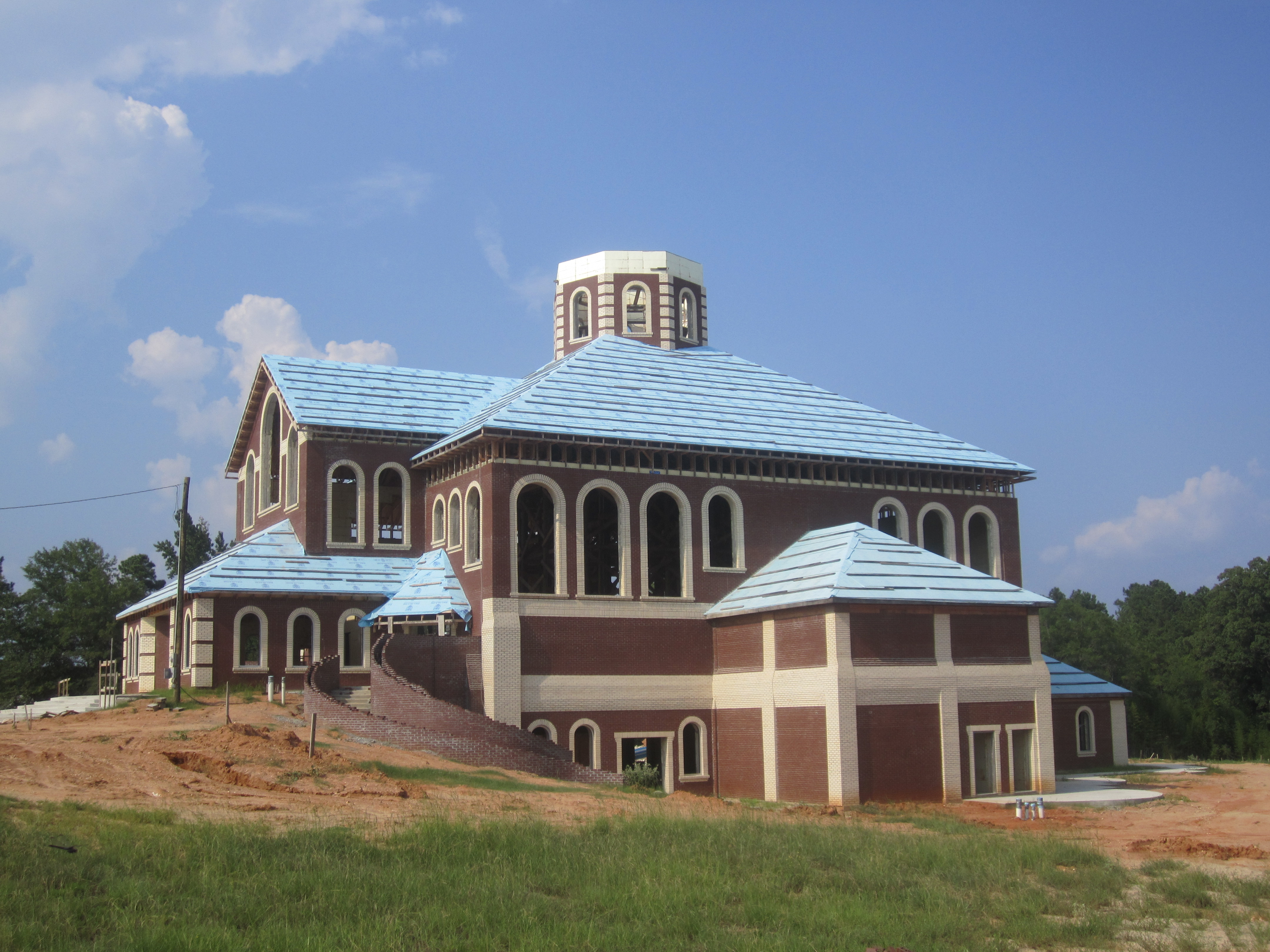 I took photo with Canon camera in Sibley, LA.